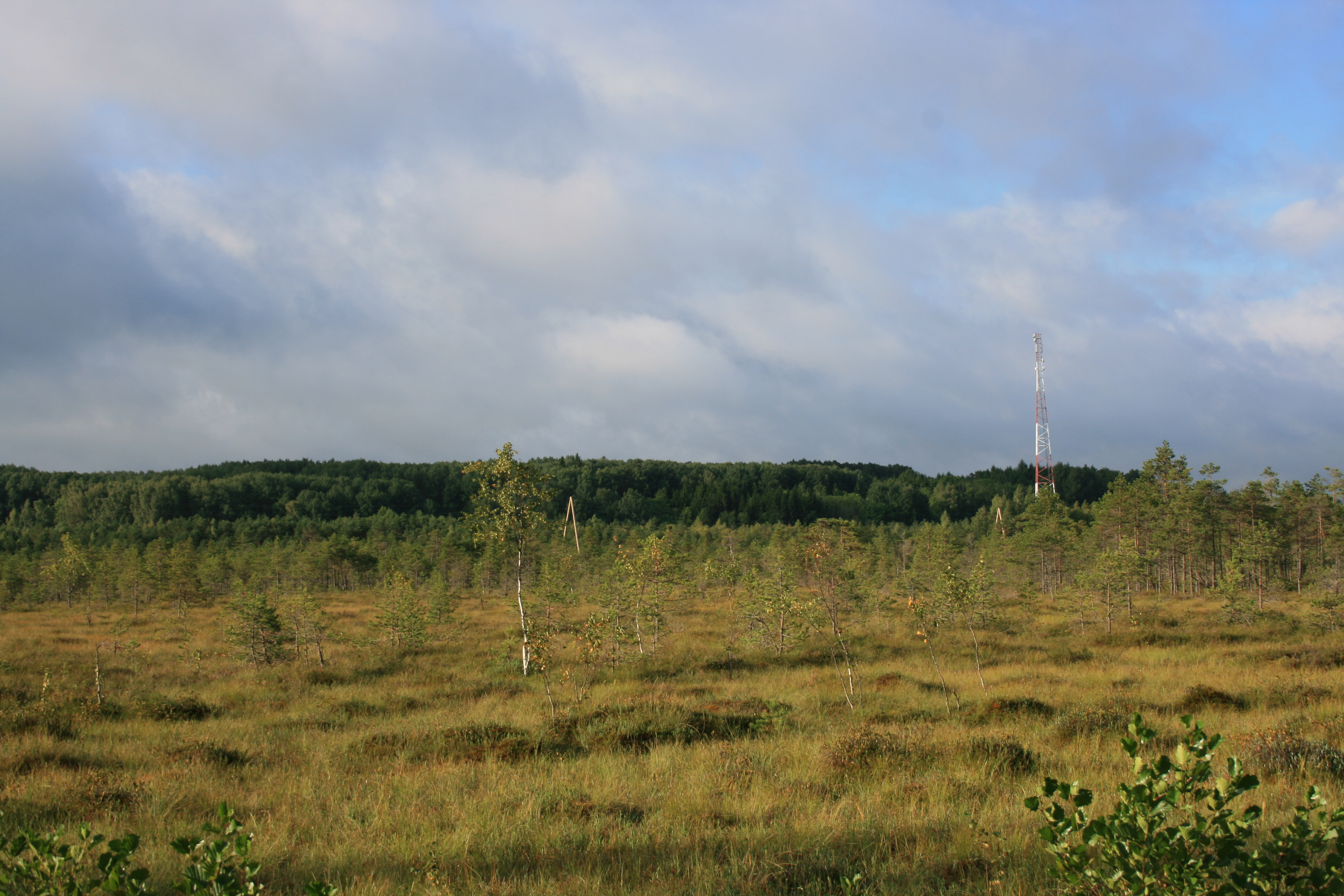 Purvs.Marsh